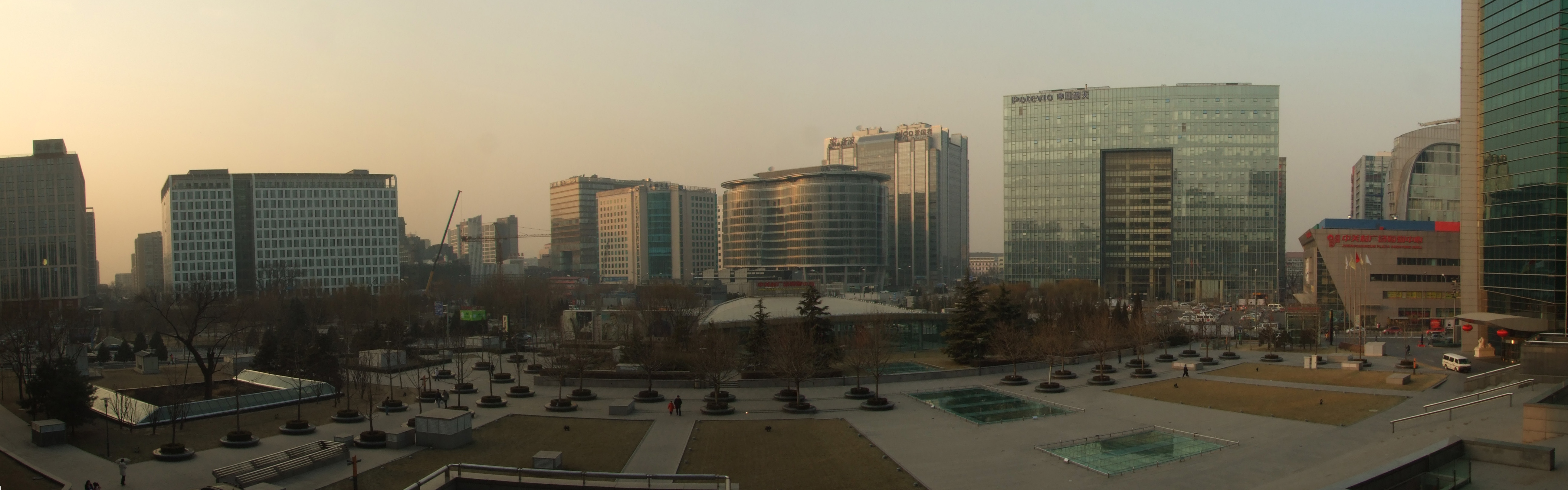 Buildings in Zhongguancun 中文（中国大陆）: 中关村科技园区